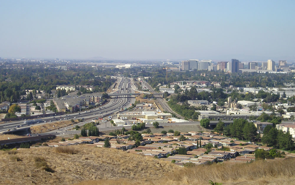 State Route 87 looking north from communications hill[1] towards downtown San Jose. The light rail (2 cars near lower left) runs between the northbound and southbound lanes; the freeway is under construction to add an additional lane in both directions.Curtner Avenue underpass is at lower left; the Almaden Expressway overpass is just further north.